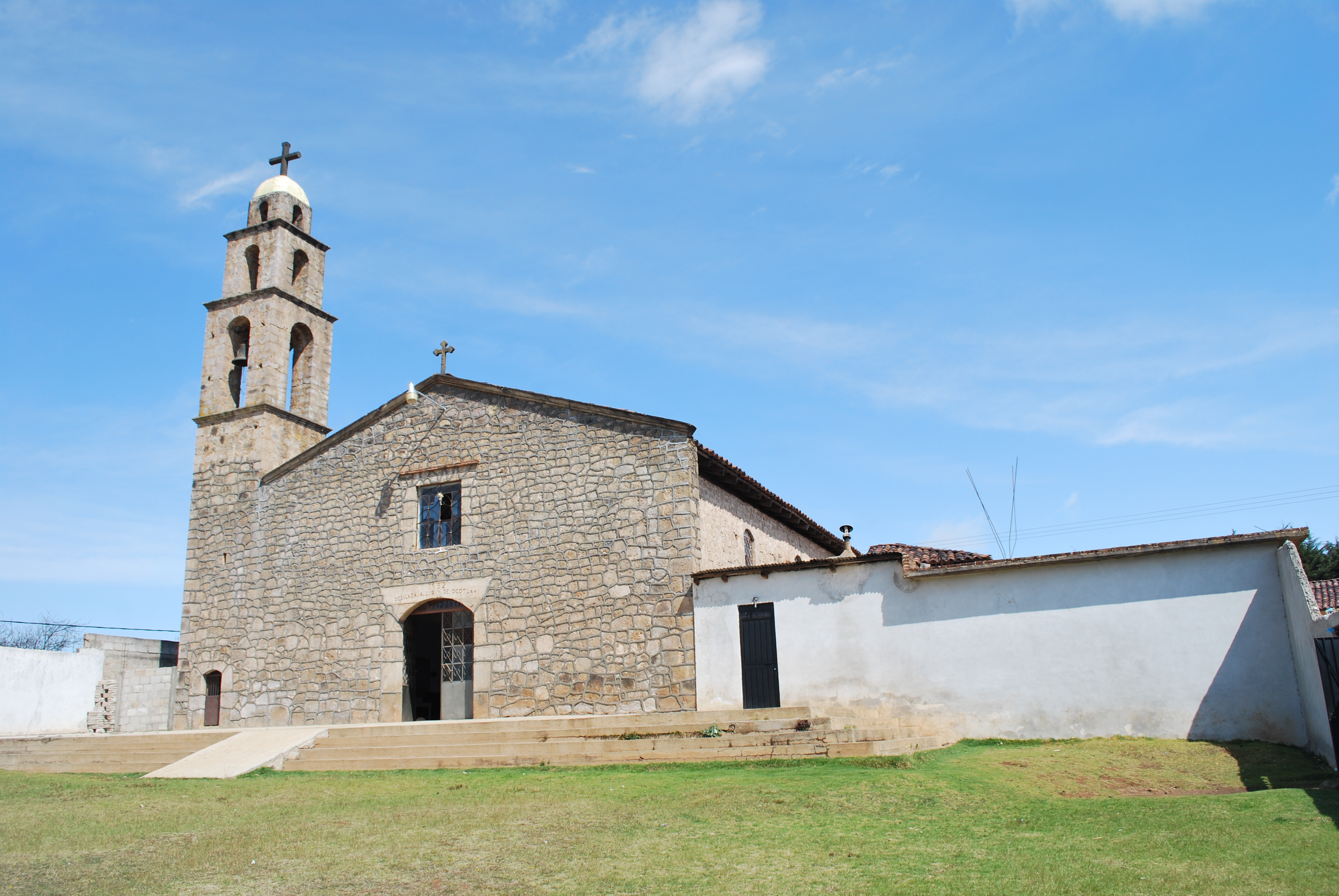 View of the Nuestra Señora de Guadalupe parish in Camotepec, Zacatlán, Puebla